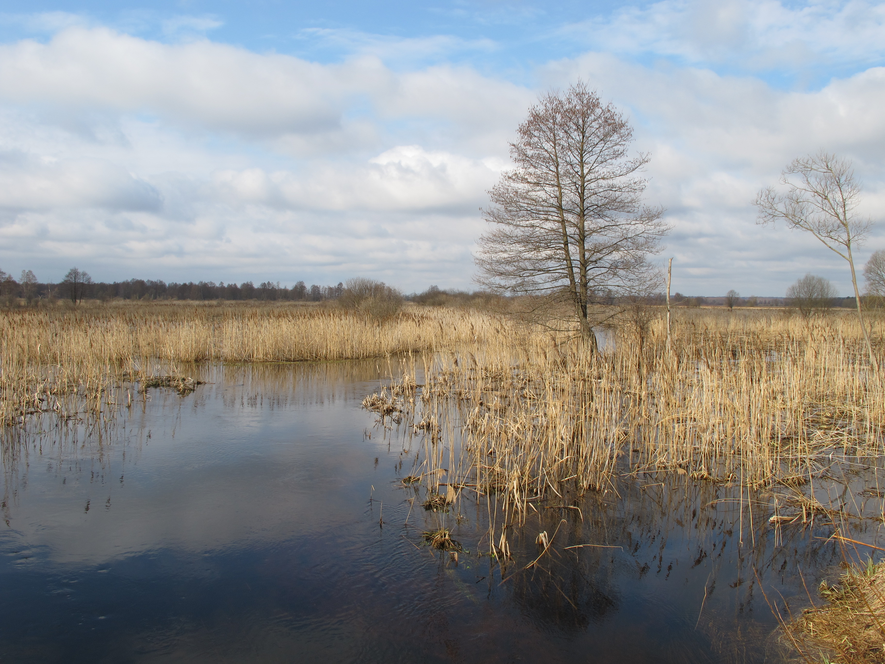 Marshes and flood-meadows on the braided channels Narew's floodplains, seen from a road between Pańki and Rzędziany villages. Area belongs to NPN.